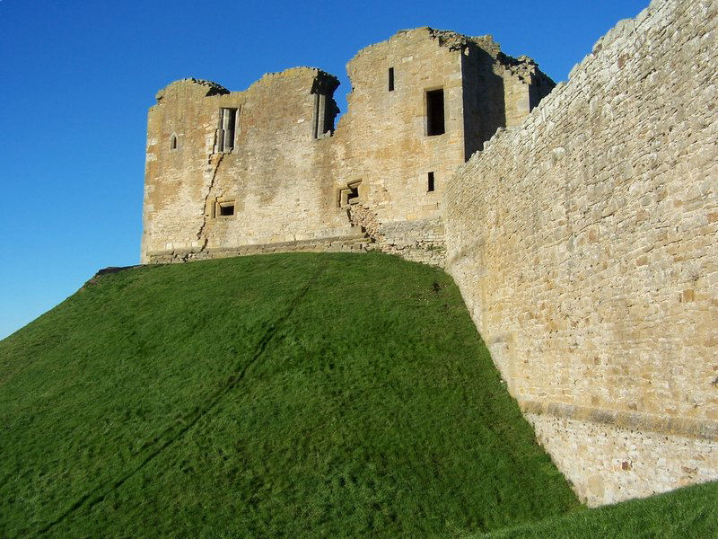 The remnant of the stone keep at Duffus Castle, built in the early 1300s to replace the earlier structure on that site burned by Andrew Moray. Duffus Castle, possibly begun by Freskin. Duffus Castle, possibly begun by Freskin, one of David's most successful small scale military immigrants.